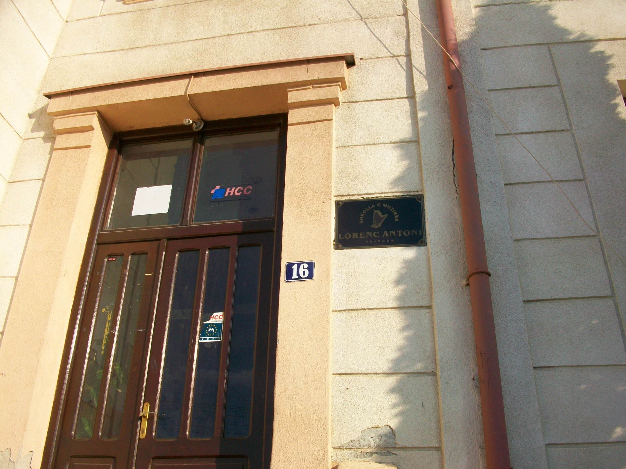 Pictures from Prizren Kosovo